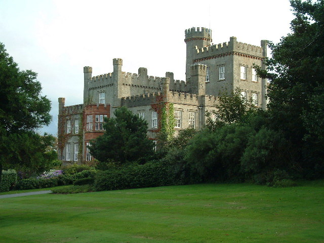 St Brides Castle. Former hospital, now converted into holiday apartments used by members of Holiday Property Bond